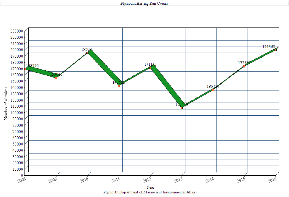 Plymouth Department of Marine and Environmental Affairs herring counts from 2008-2016